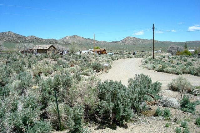 Main Road of Lida (Nevada)